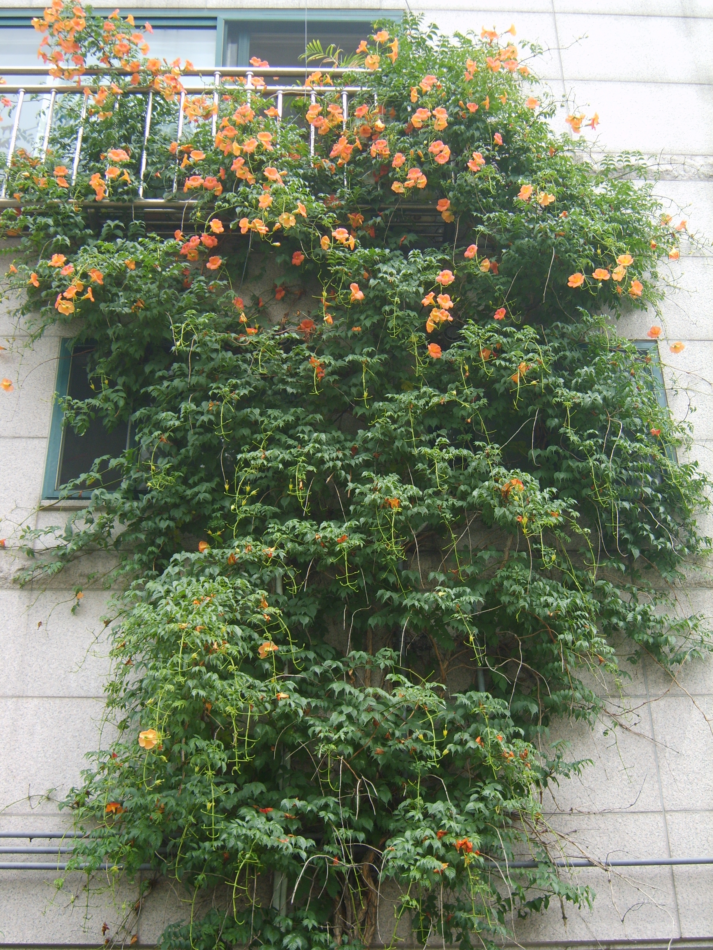 Campsis grandiflora in Bupyung, Korea